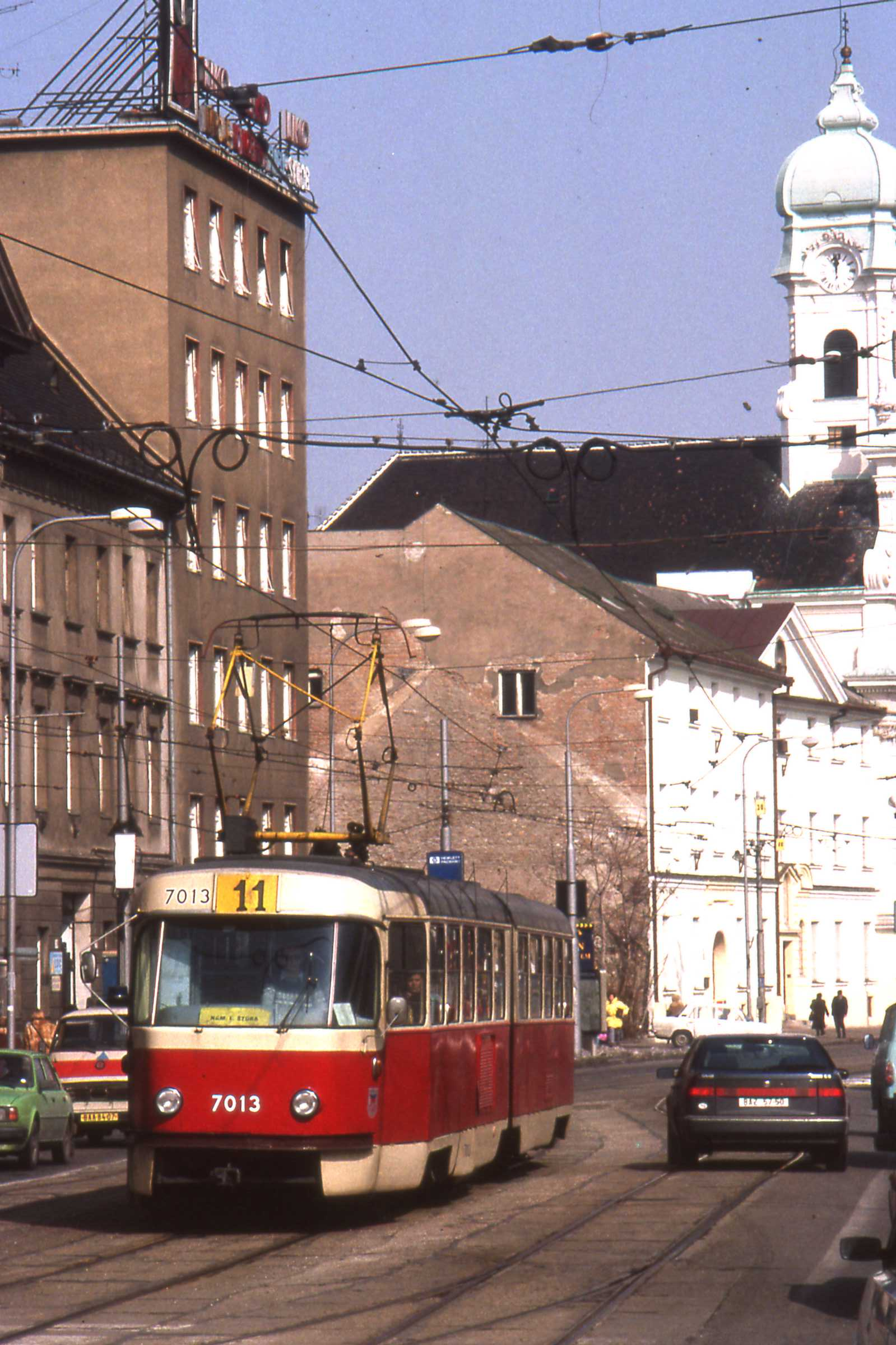 Tatra K2 tram in Bratislava, Slovakia, 1993